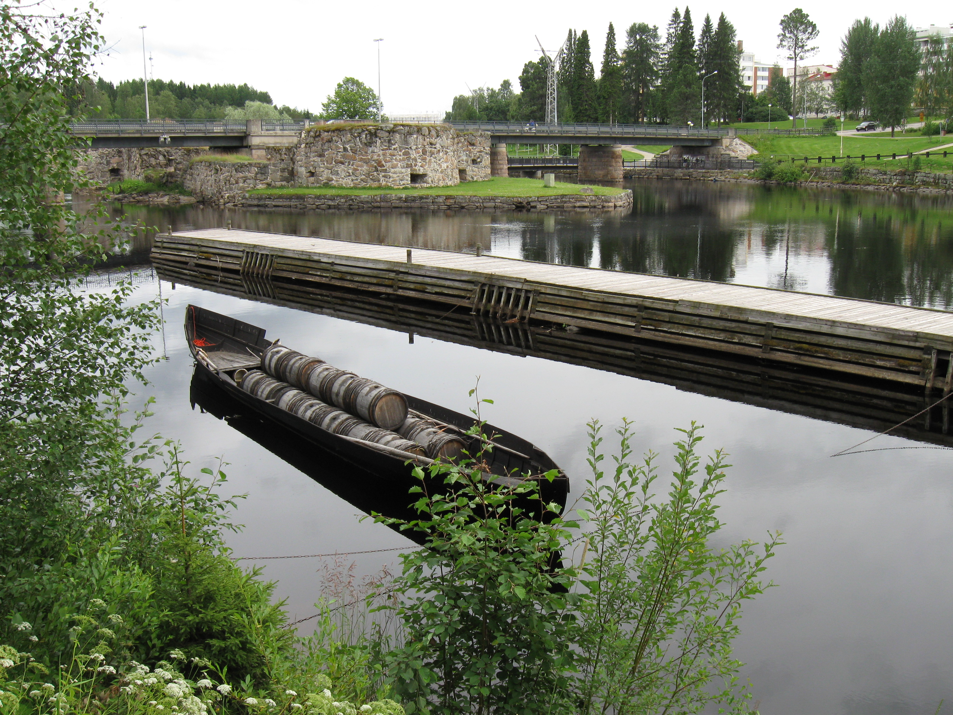 A tar boat in Kajaani, parked at the mouth of the tar canal of Ämmäkoski.